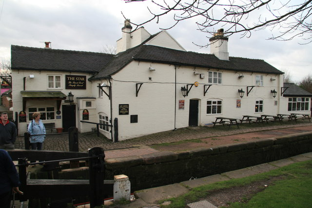 The Star Inn. An old canal inn by Stone bottom lock on the Trent and Mersey. Various IA (industrial archaeology) books detail an old warehouse and basin that were off to the left on the other side of the Stafford Road Bridge. These have gone without trace. Indeed several items listed in W J Thompson's Industrial Archaeology of North Staffordshire have gone from Stone.